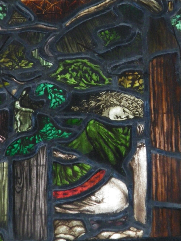 Frideswide fleeing her lover and hiding in a pigstye. Detail from a Christopher Whall window in the Lady Chapel at Gloucester Cathedral.